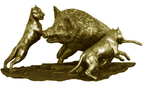 A bronze sculpture of two pitbull "catch dogs" surrounding a wild boar.